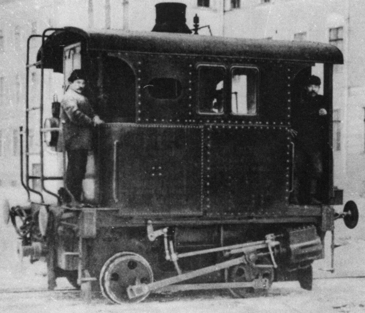 Russian tank locomotive Rak series